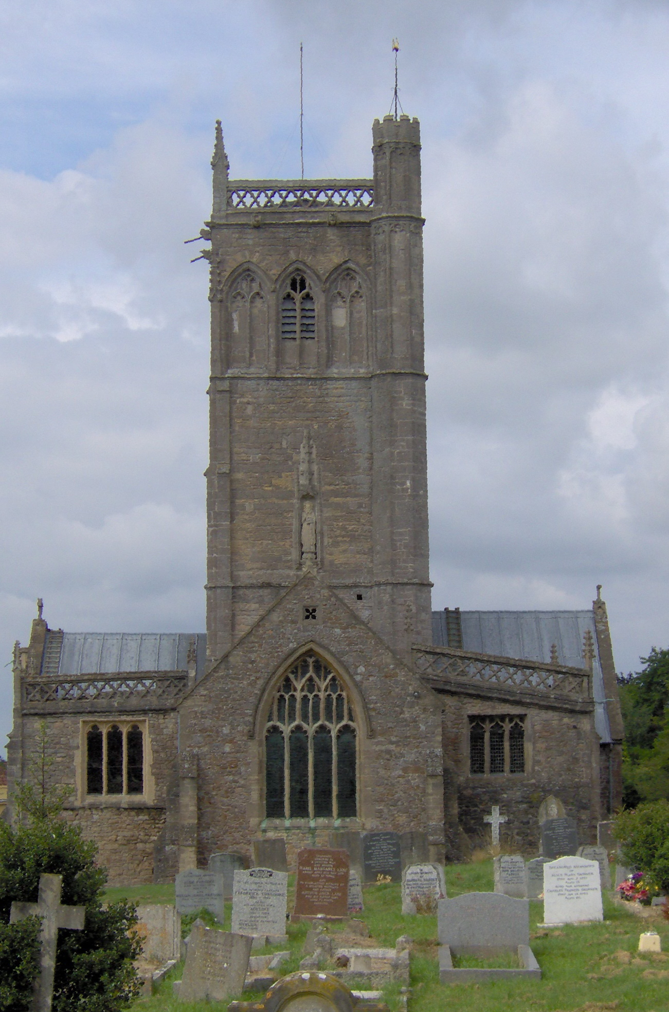 St John the Baptist parish church, Axbridge, Somerset, seen from the east